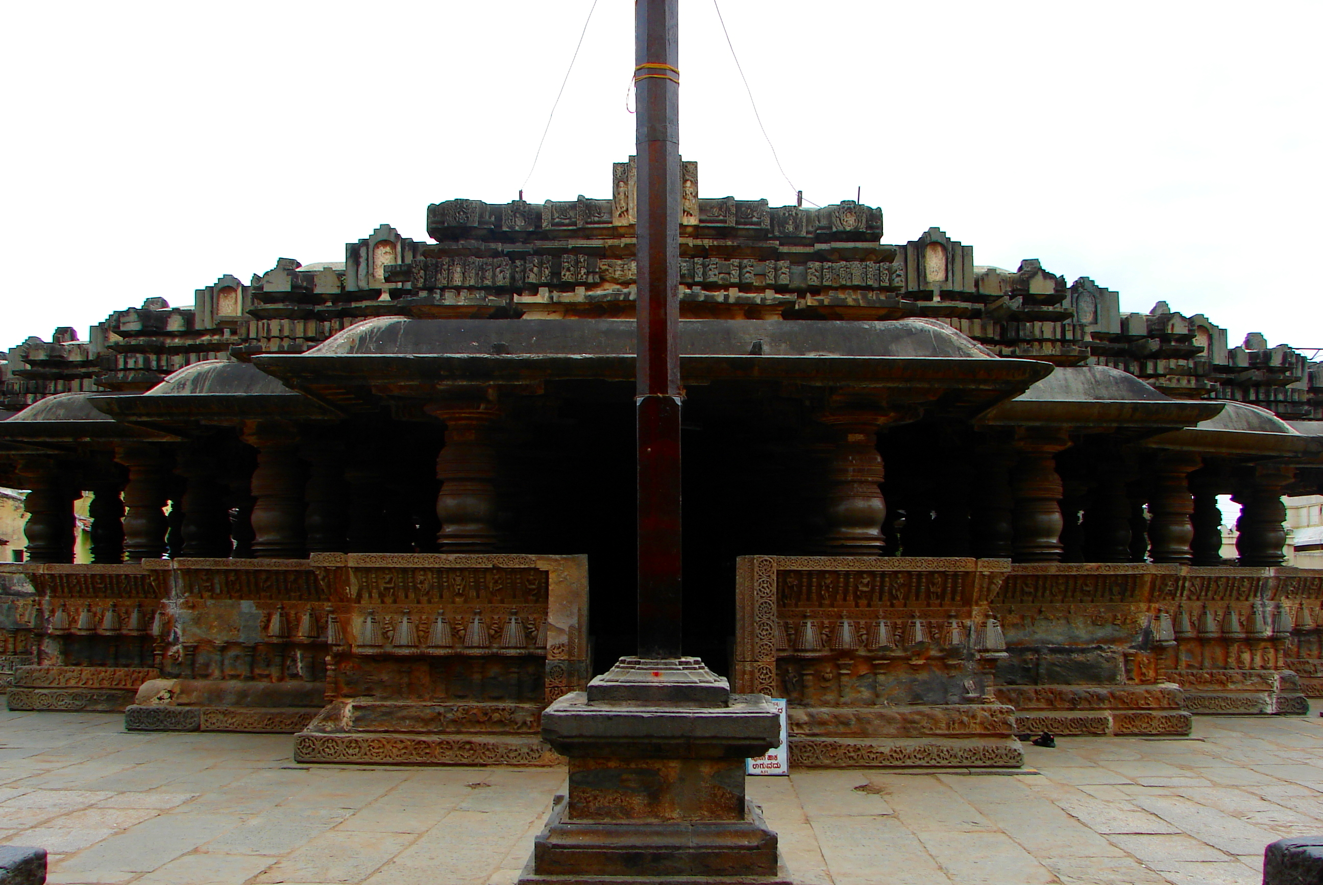 This Photograph was taken by self (Dinesh Kannambadi) at the Harihareshwara temple, in Harihar, Davangere district, Karnataka state, India on July 2007